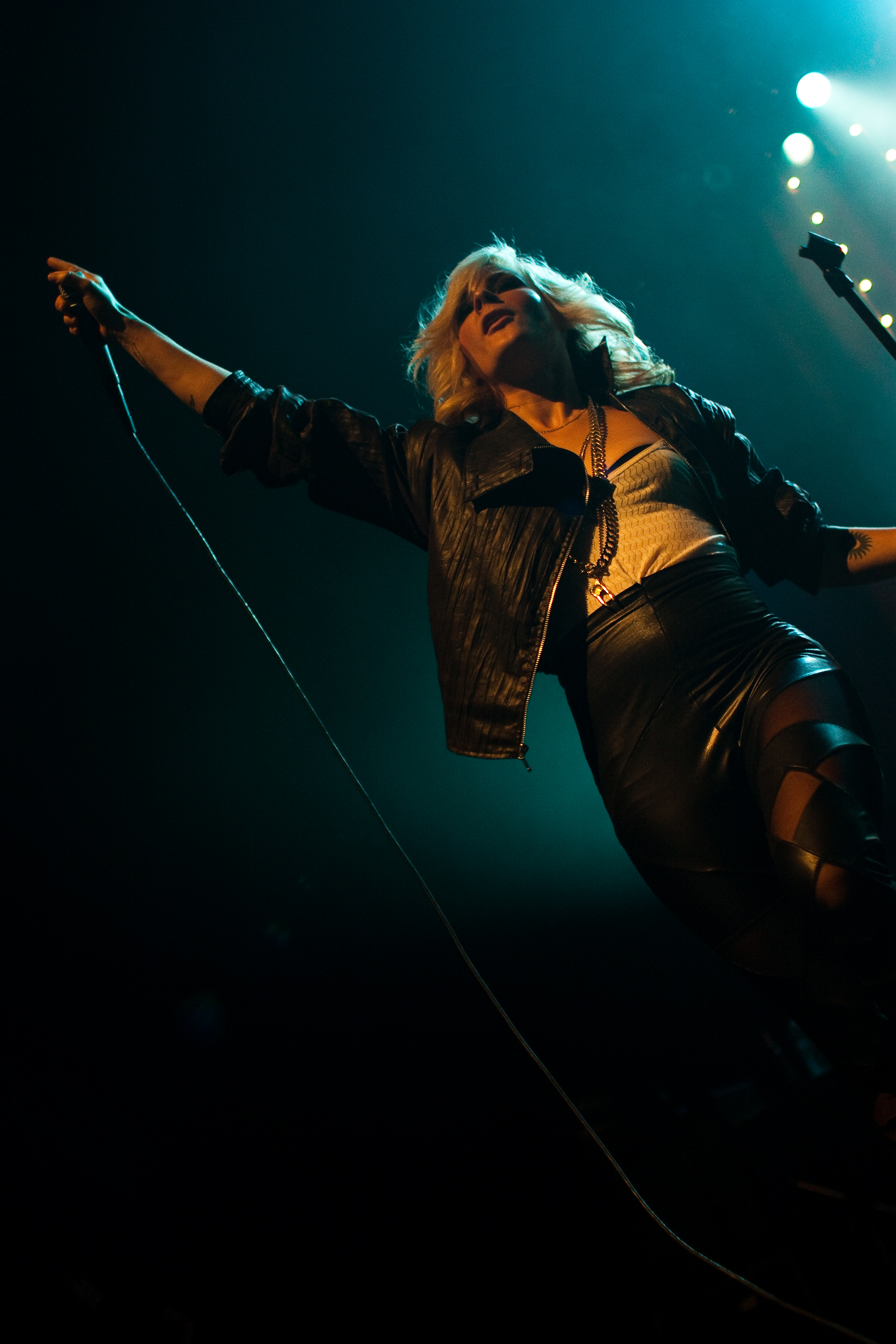 The Sounds 4